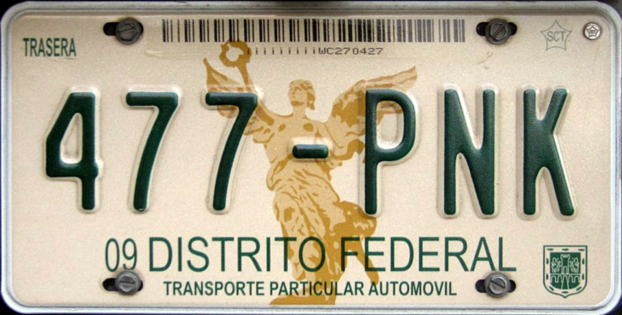 Number plate of the Federal District, Mexico